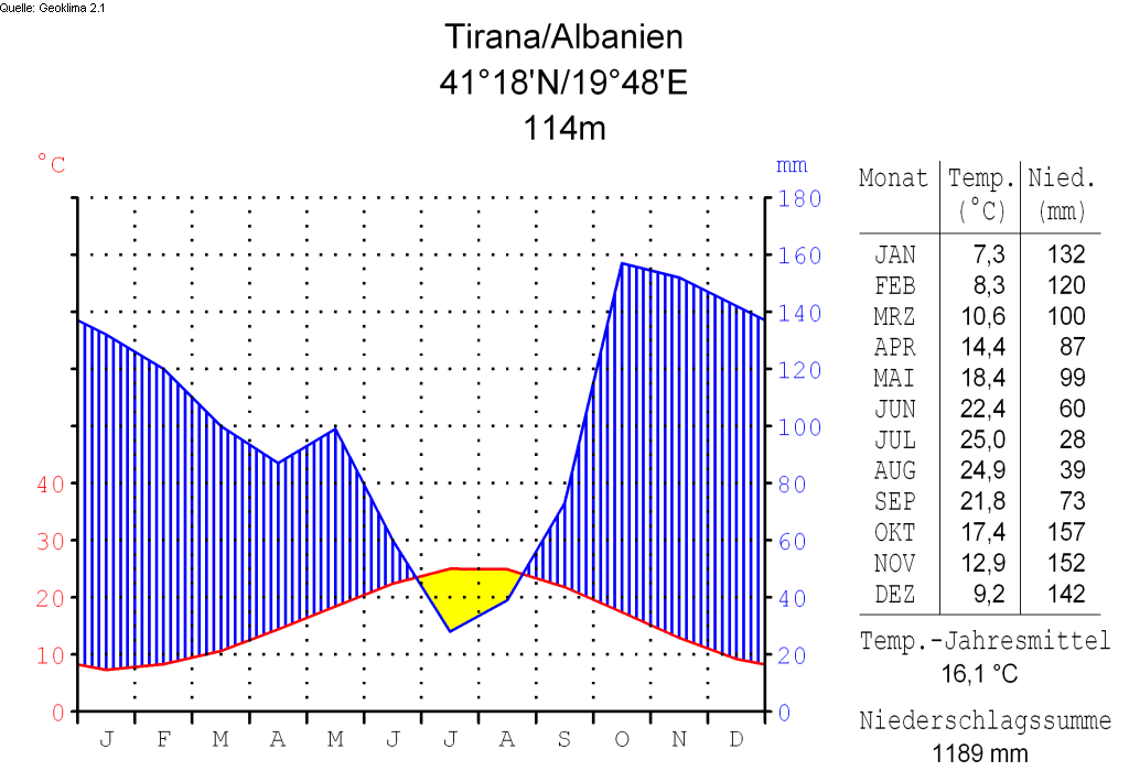 climate chart in the format by Walter and Lieth, metric, °Celsisus and millimeters, made with Geoklima 2.1